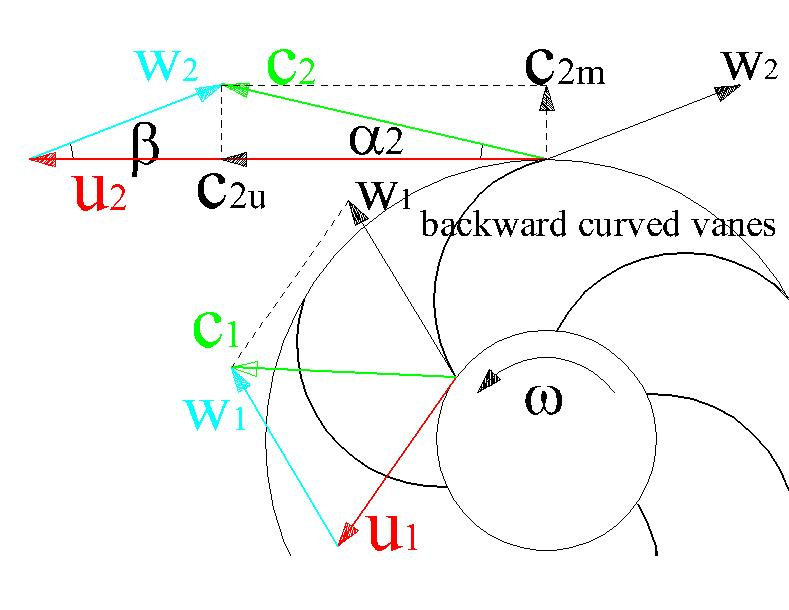 triangle velocity proposed by Sir Euler 1751